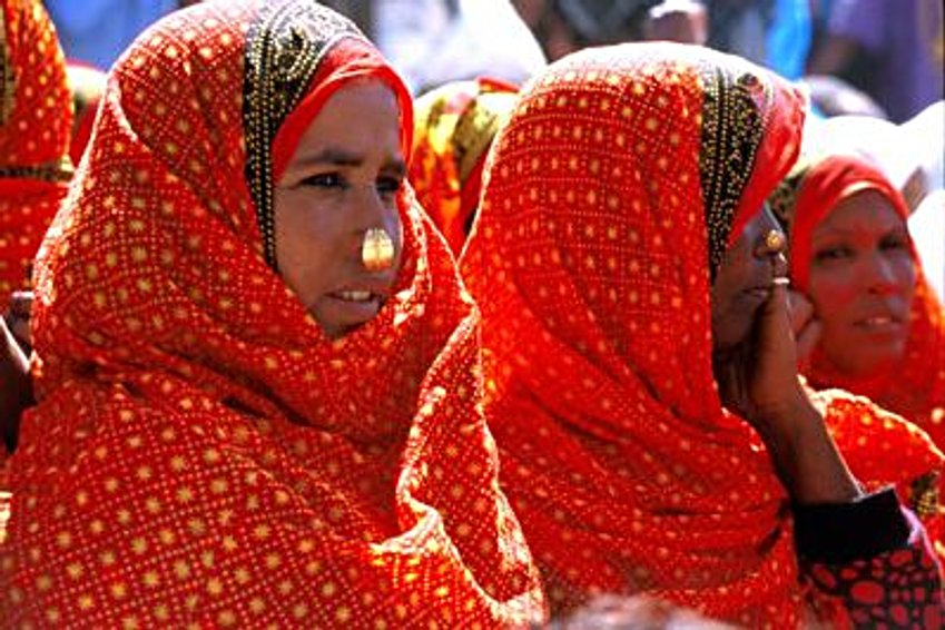 Saho women, Eritrea